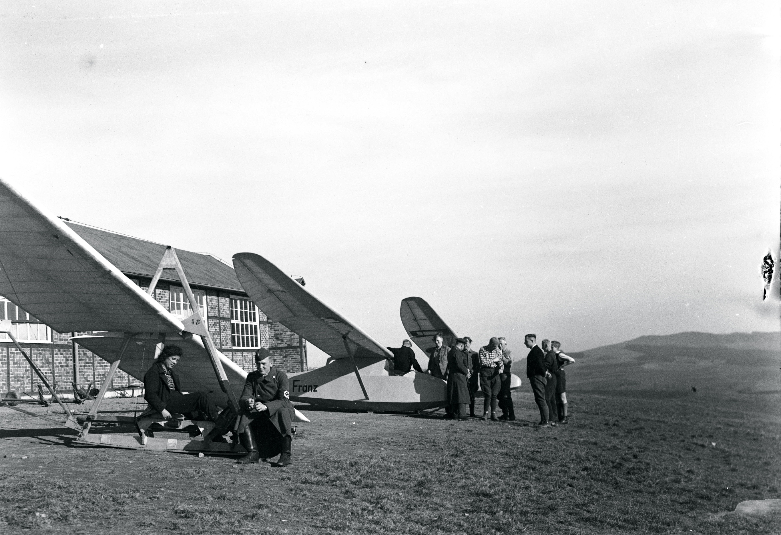 Originally photographed by my father Werner Herbert Milling before WW 2nd.